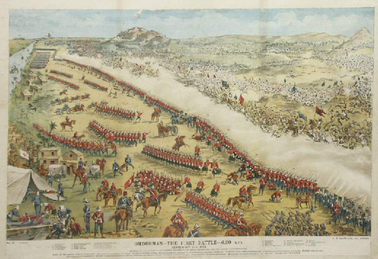 The Battle of Omdurman, 1898, the 21st Lancers delivered the last full scale cavalry charge of modern warfare.